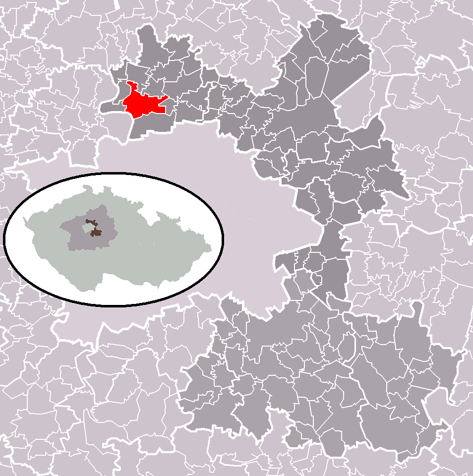 Location of Klecany town within Prague-East District and administrative area of Brandýs nad Labem-Stará Boleslav as a Municipality with Extended Competence.